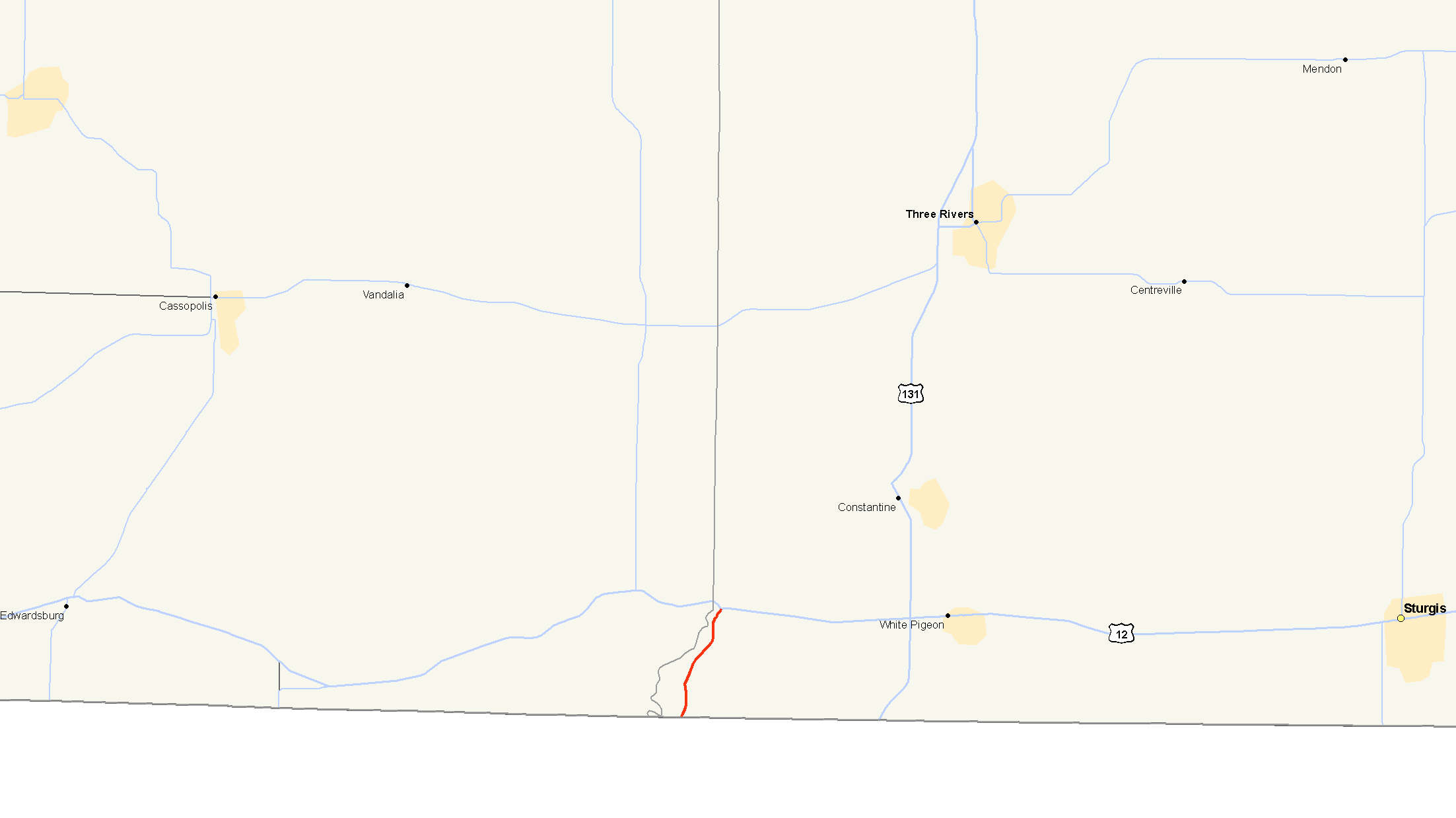 Map of M-103